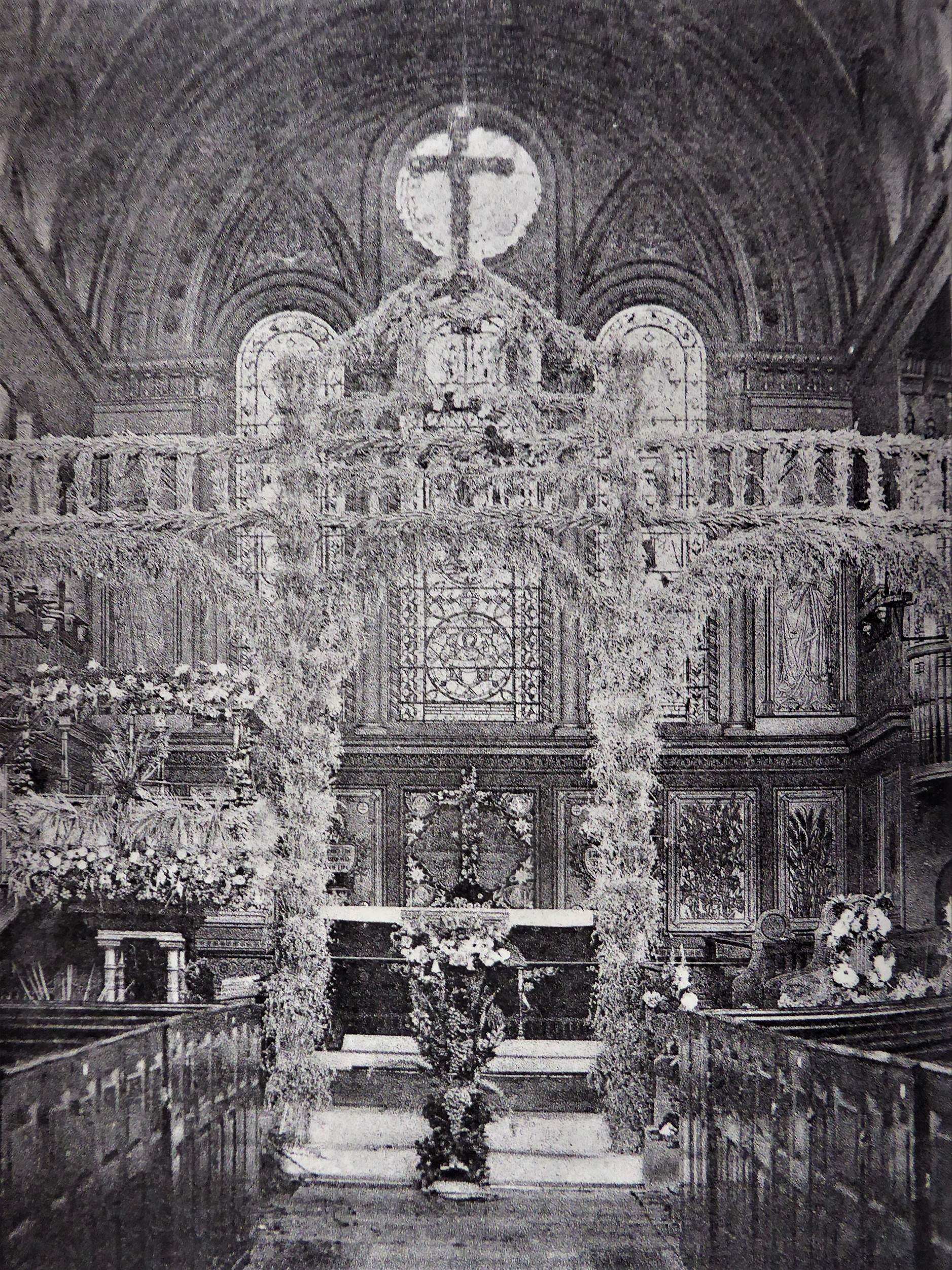 St Mark's Church, Cheetham Hill, Manchester, England, 1891